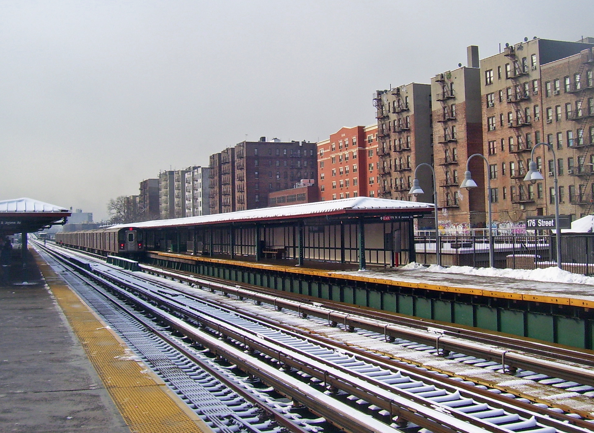 Downtown 4 train leaving the 176th Street station in the Bronx.